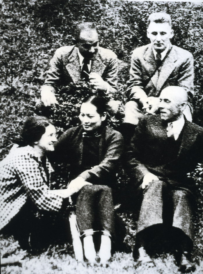 Soong Ching-ling, Rewi Alley(right, back row) and others were in Hong Kong.